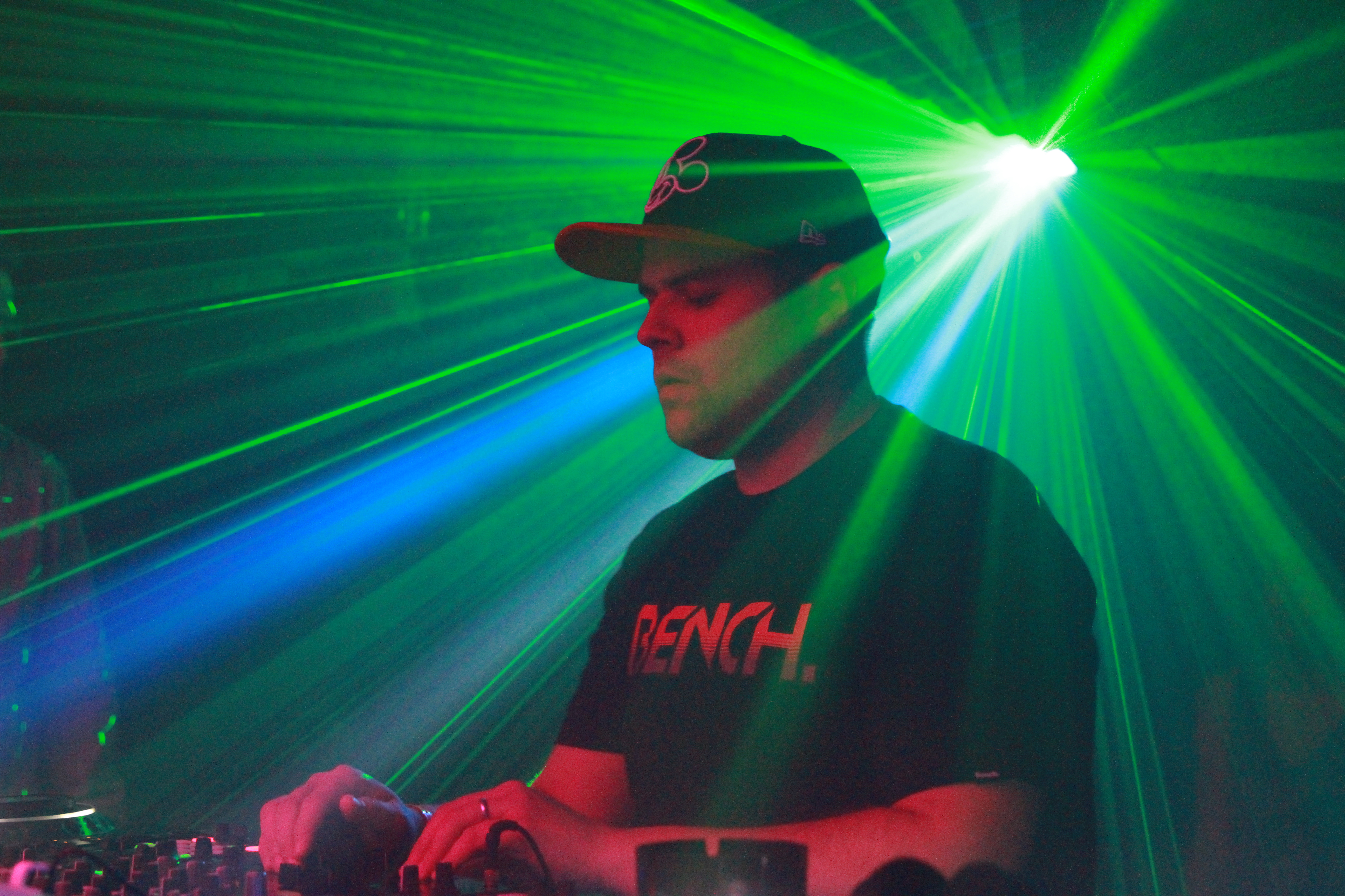 Frank Sonic bei Electric City.